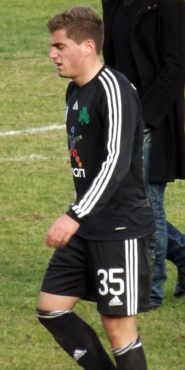 Charis Mavrias during half-time at Agrotikos Asteras – Panathinaikos.